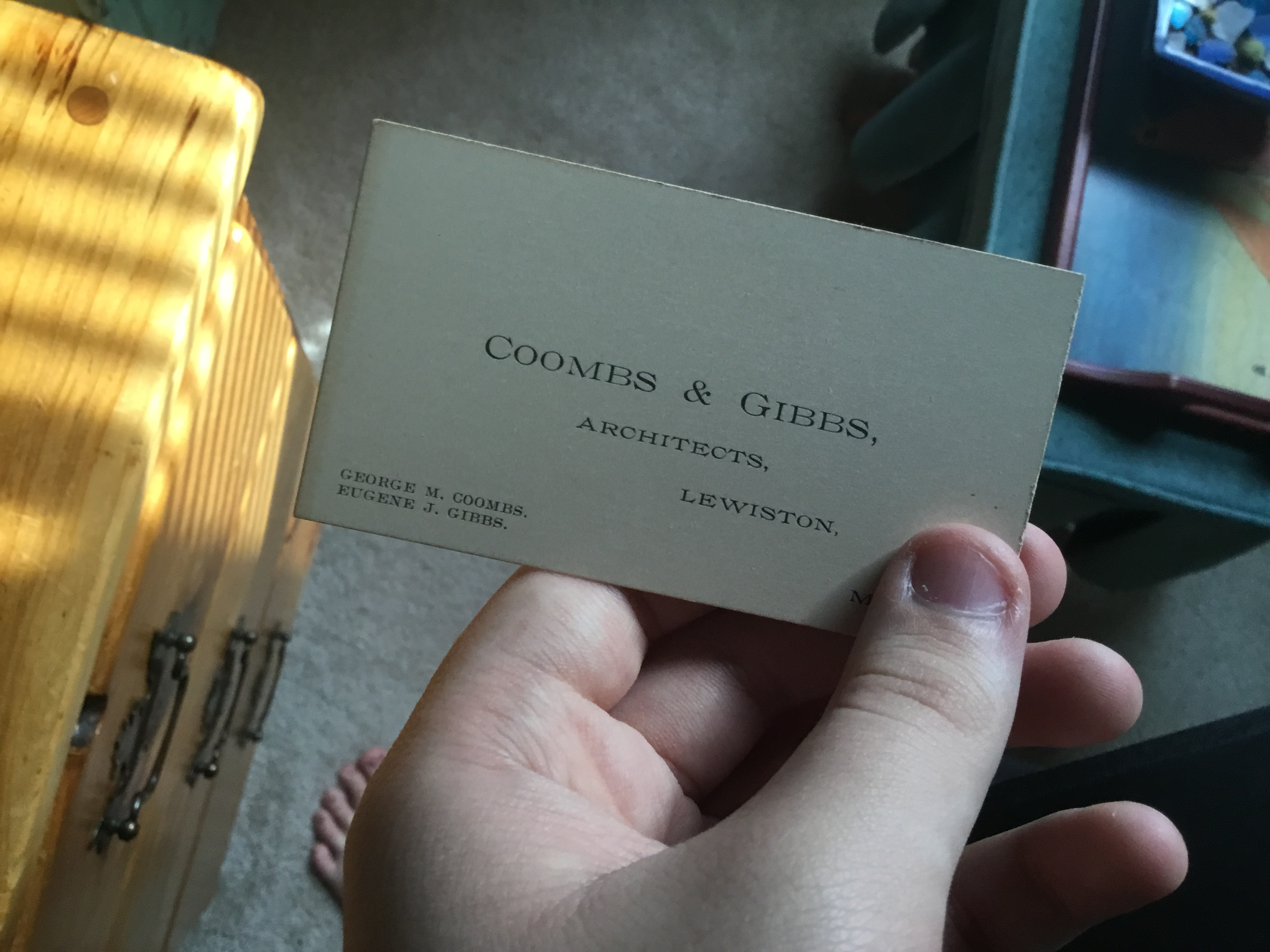 A business card belonging to Eugene J. Gibbs. Comes from the collection of his Great-Great Grandson, the author.